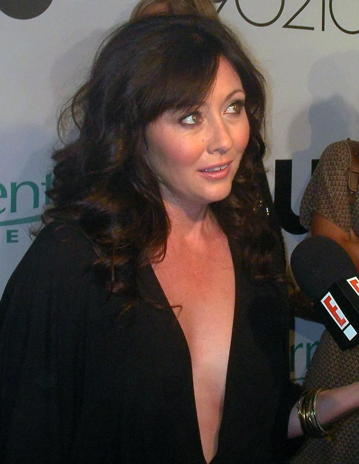 Premiere party for CW's "90210," Malibu, California - Aug. 23, 2008